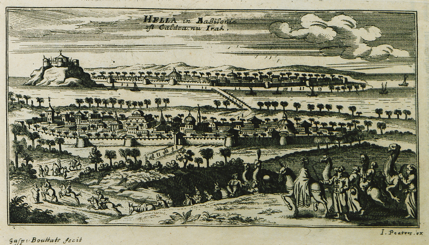 Jacob Peeters. Description des principales villes, havres et isles du golfe de Venise du coté oriental. Comme aussi des villes et forteresses de la Moree, et quelques places de la Grèce, Antwerp, Sur le marché des vieux Souliers, 1690.